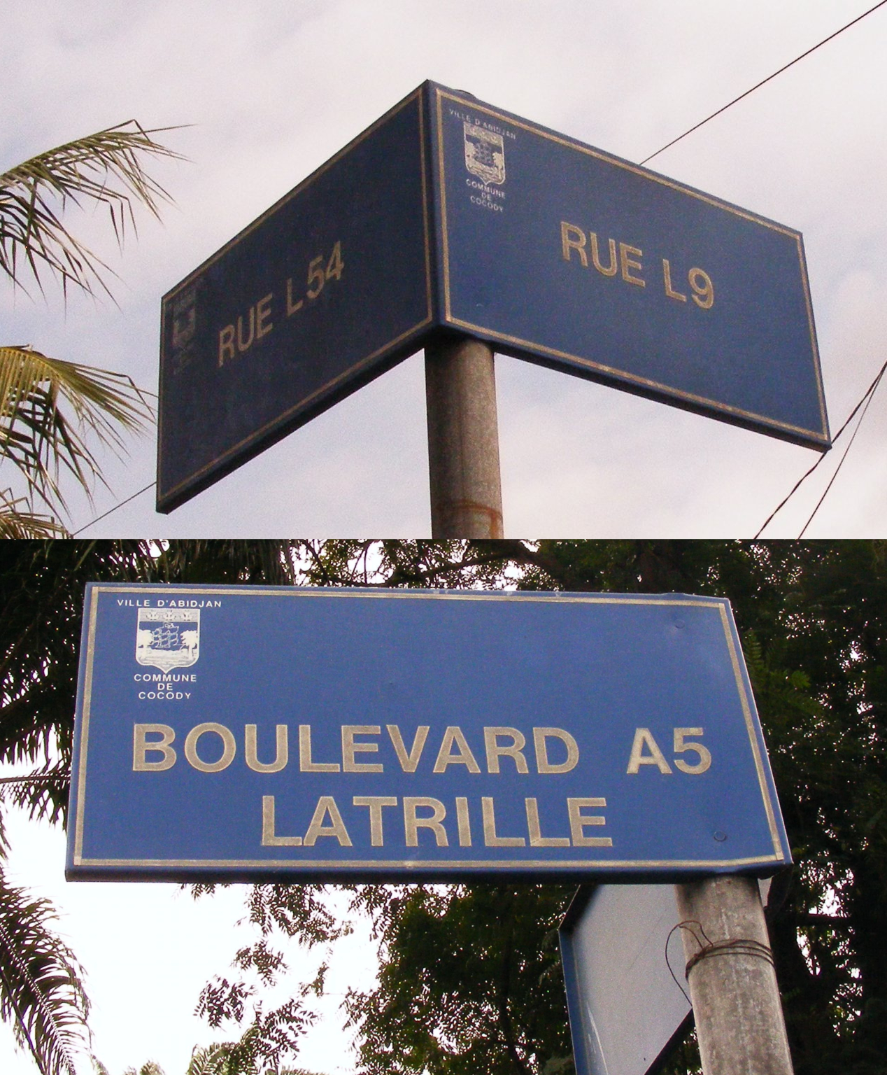 Street signs in Cocody, Abidjan. Not all the street actually have names : many streets in the city have been attributed a letter followed by a number.